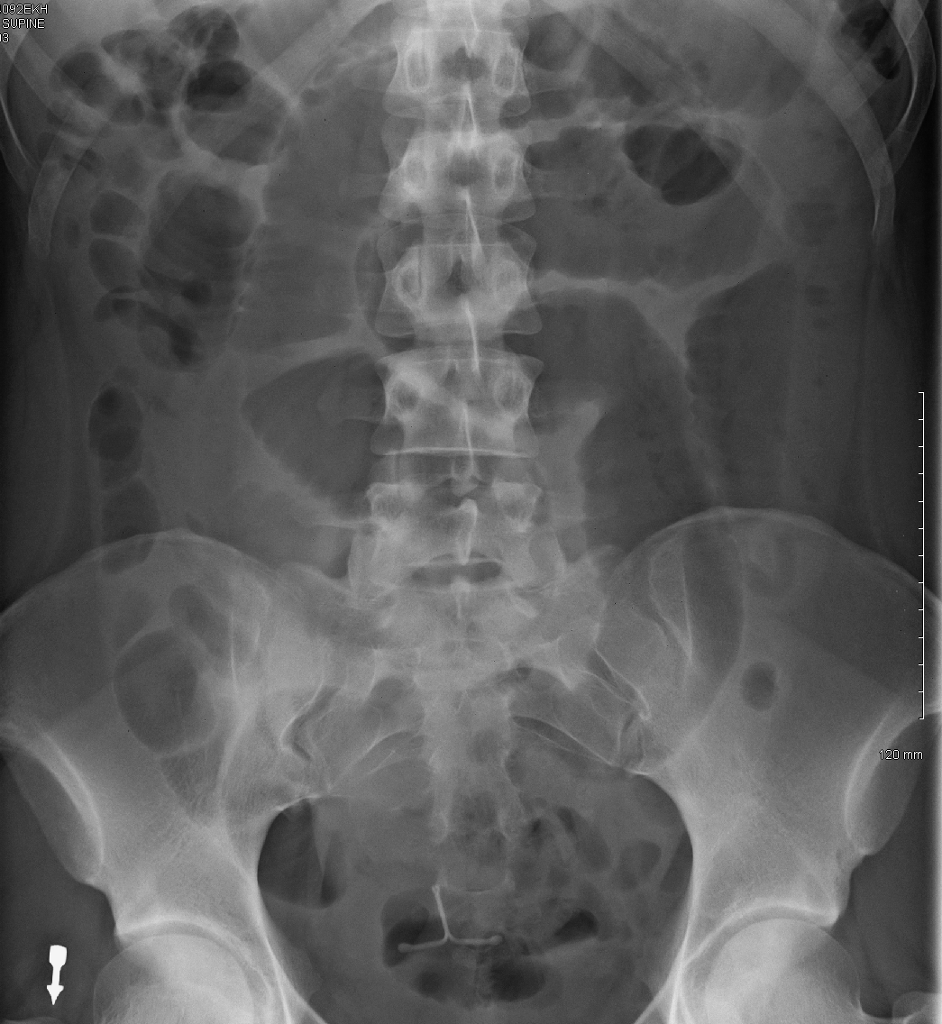 An xray of a person with a intestinal volvulus.